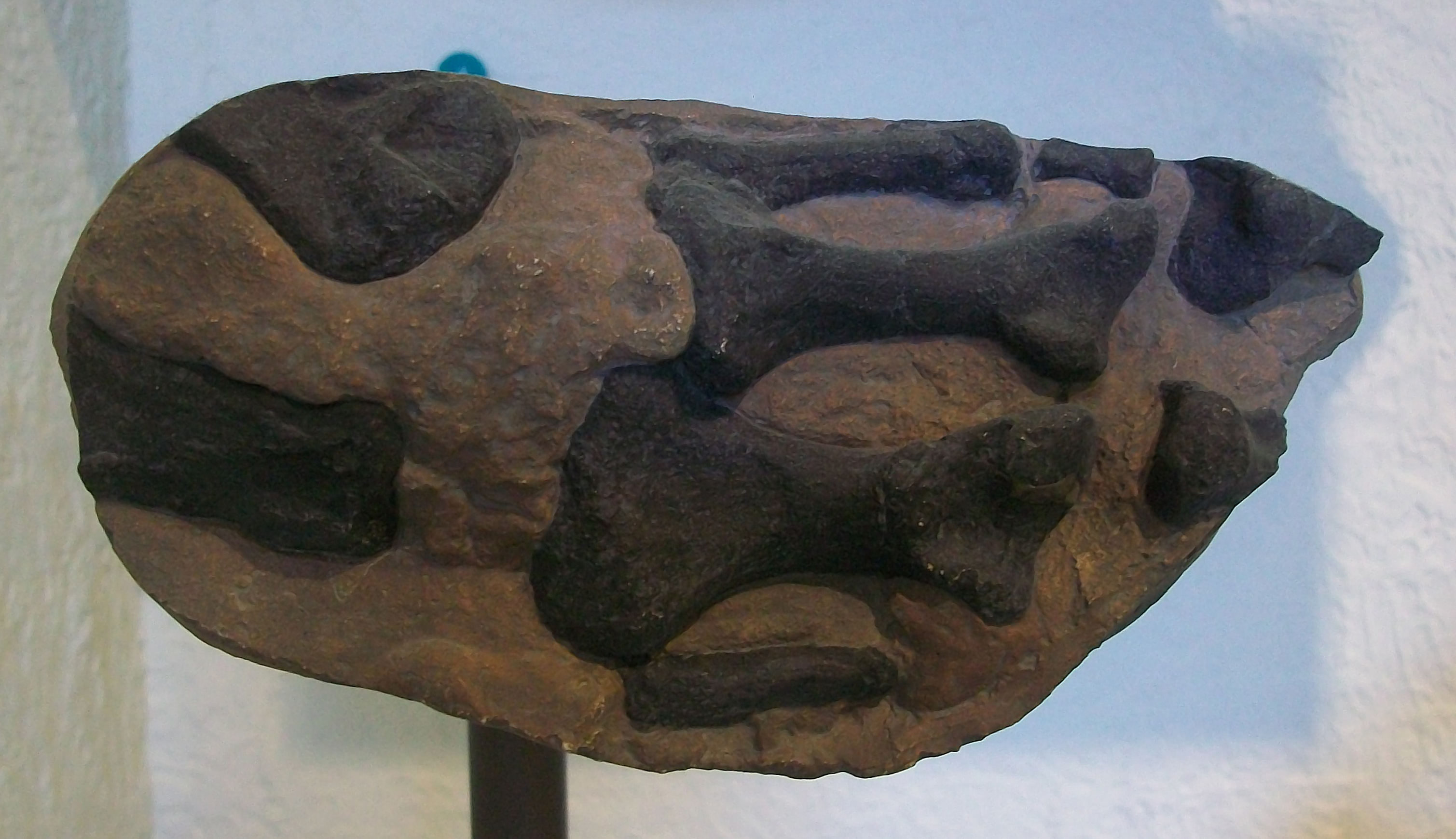 Cast of a hand of Ceratosaurus nasicornis (specimen AMNH 27631) in the American Museum of Natural History.